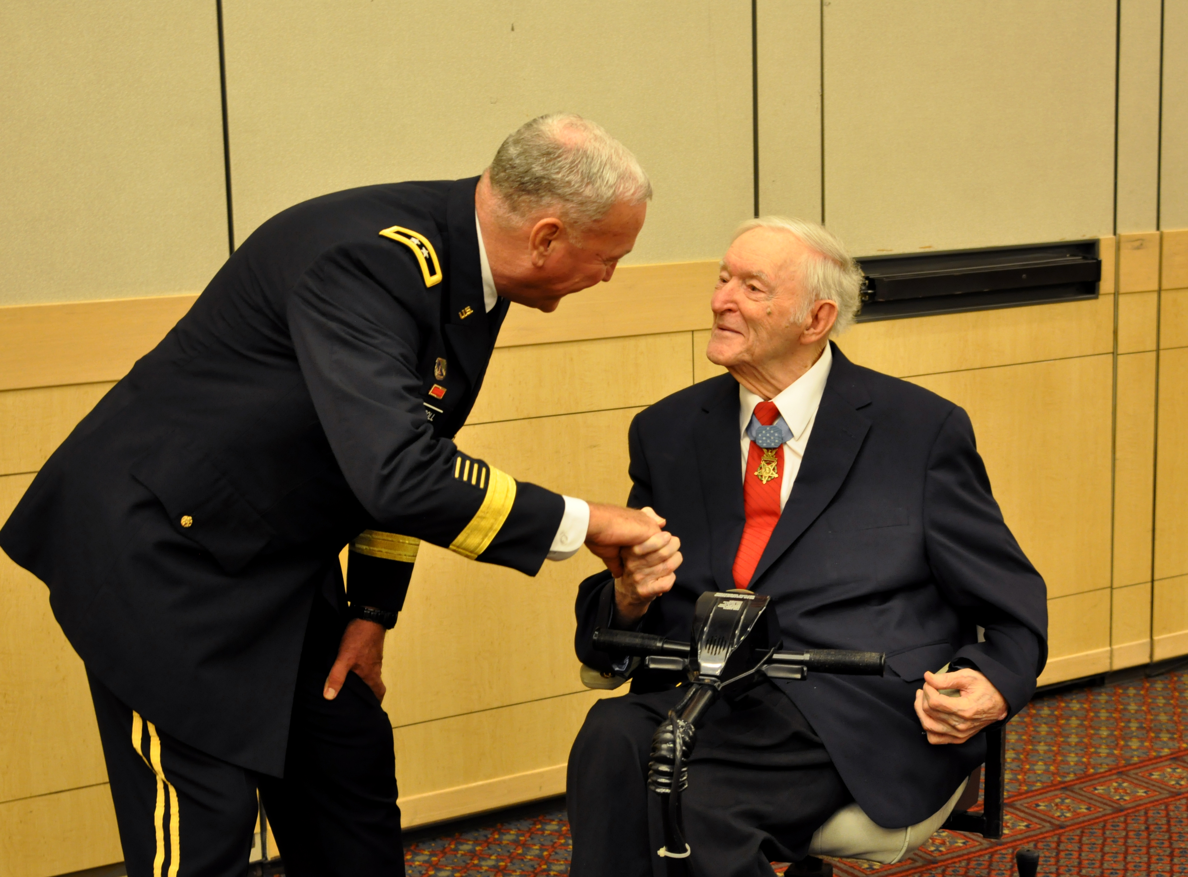 Former Medal of Honor recipient Charles Coolidge